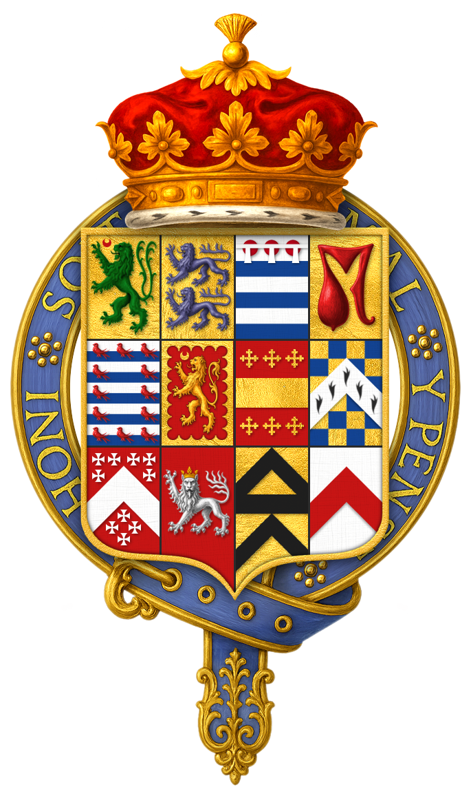 Coat of arms of Sir John Dudley, 1st Duke of Northumberland, KG as they appear on the tomb of Sir Ambrose Dudley, 3rd Earl of Warwick, KG. Northumberland's quartered arms are represented thereon impaling those of his wife, Jane Guildford. His arms are represented quarterly as: 1) or, a lion rampant double-queued vert, a chevron for difference (Dudley) 2) or, two lions passant azure (Someri/Dudley of Durham) 3) barry of six, argent and azure, in chief three torteaux, and a label of three points argent for difference (Grey) 4) or, a maunch gules (Hastings) 5) barry of ten, argent and azure, an orle of martlets gules (Valence) 6) gules, a lion rampant within a bordure engrailed or, a crescent for difference (Talbot) 7) gules, a fess between six cross crosslets or (Beauchamp) 8) chequy, or and azure, a chevron ermine (Neubourg) 9) Gules, a chevron between ten cross-crosslets argent, six in chief and four in base (Berkeley) 10) gules, a lion passant argent, ducally crowned or (Gerard) 11) or, a fess between two chevrons sable (Pecche) 12) argent, a chevron gules (Stafford)